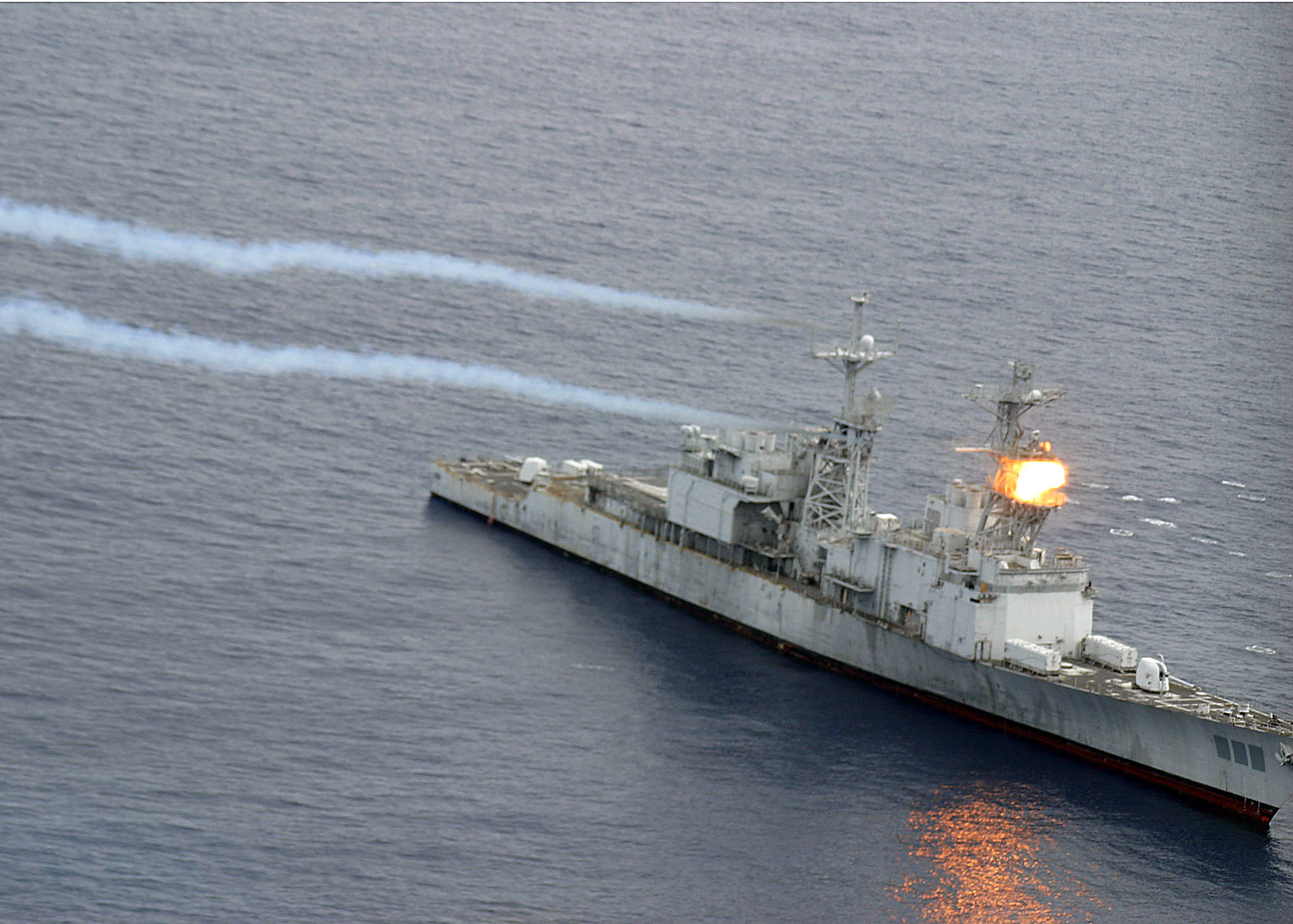 A 2.75 inch helicopter-launched rocket hits the signal tower of the ex-USS Connolly (DD979) during the sinking exercise portion of UNITAS Gold.